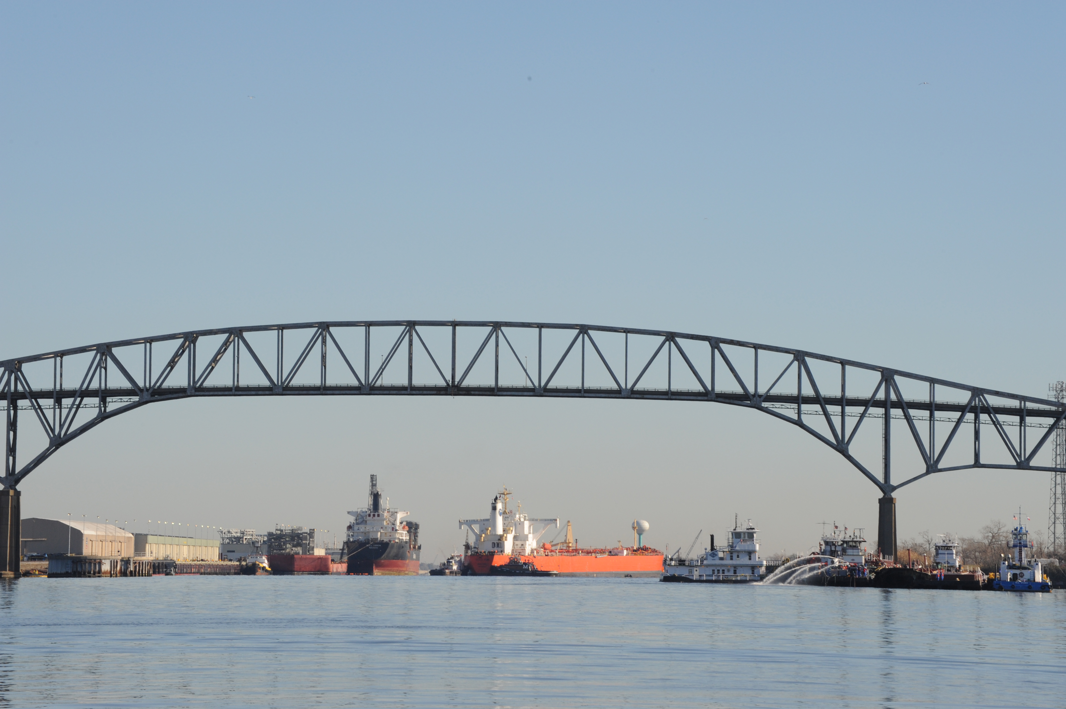 PORT ARTHUR, Texas - The Eagle Otome, an 807-foot Singapore flagged tank ship, is held in place by tug vessels, Jan. 25, 2010. A collision between Eagle Otone the towing vessel Dixie Vengeance and the two barges that it was pushing Jan. 23, 2010, spilled an estimated 450,000 gallons of crude oil into the Sabine Neches Waterway. A Unified Command has been established and clean-up crews have begun the clean-up process. U.S. Coast Guard photo by Petty Officer 2nd Class Prentice Danner.